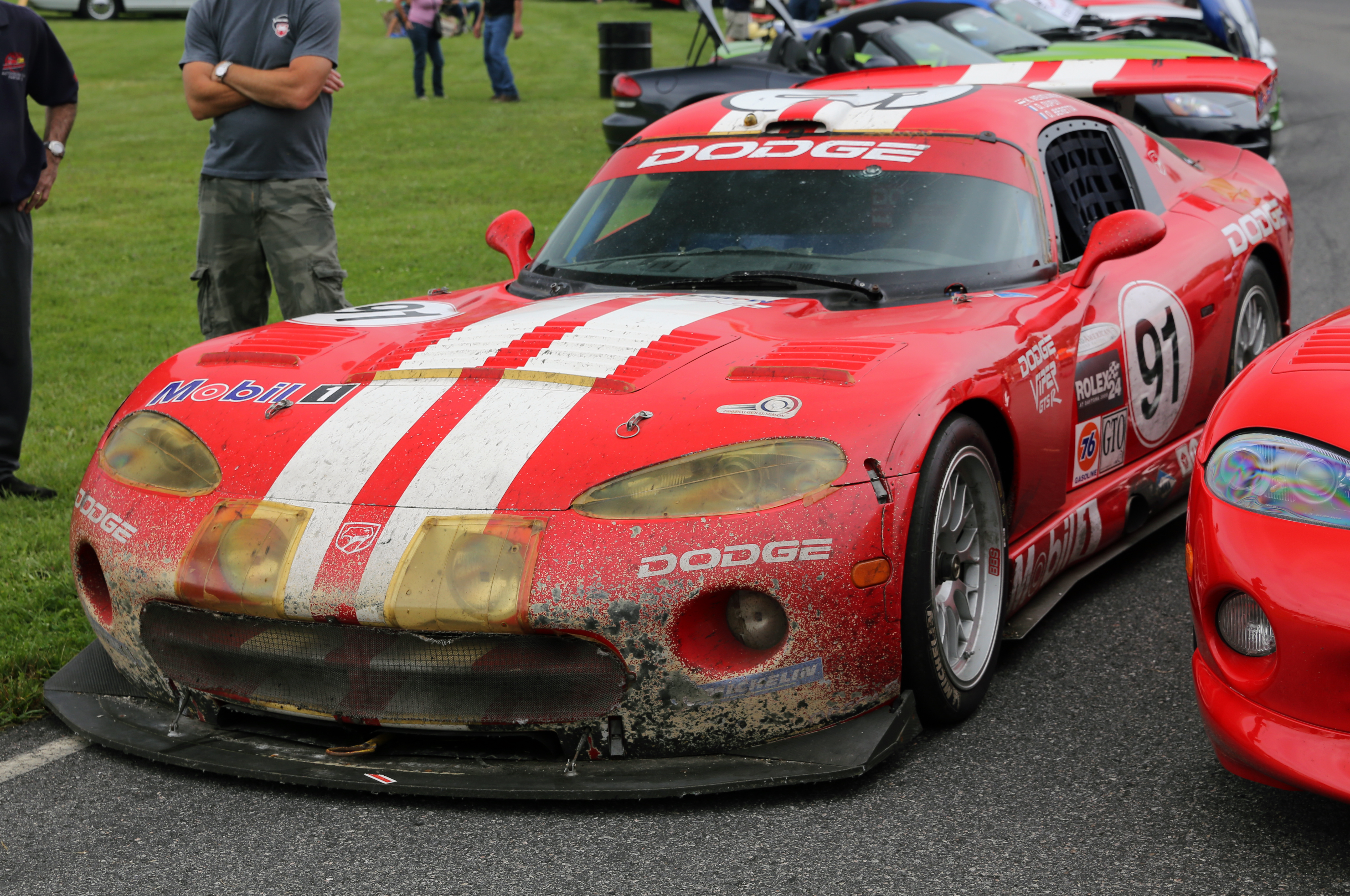 The #91 Dodge Viper GTS-R (chassis number C-21) that won the 24 hours of Daytona in 2000, and also finished seventh at the 2000 Le Mans for Team Oreca. Driven by Karl Wendlinger, Dominique Dupuy, and Olivier Beretta. At the Lime Rock Concours d'Élegance, 2014.